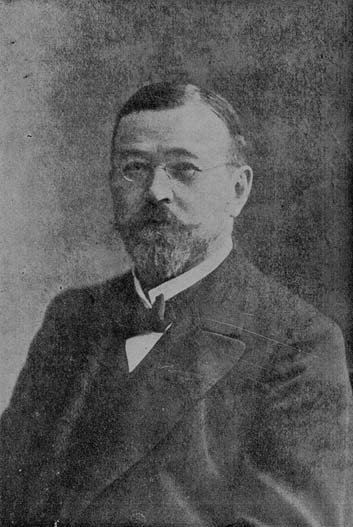 Late Dr. Kellner.